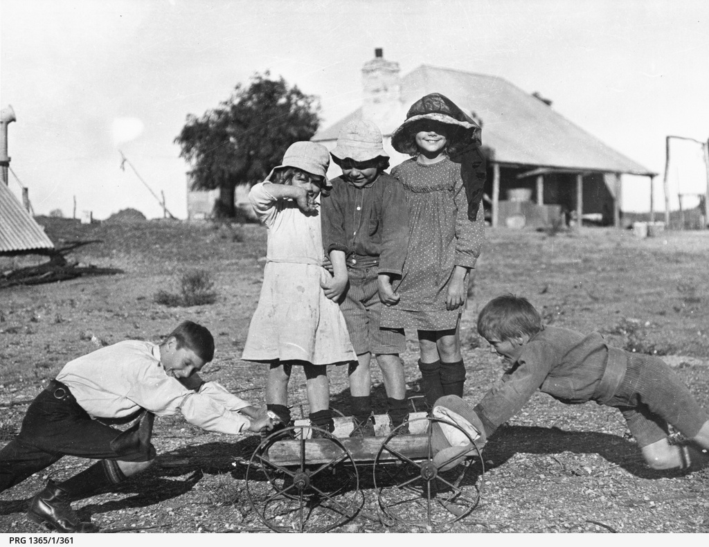 'Bob Laver [left], against the Hayes eldest boy' (PRG-1365-1-361)